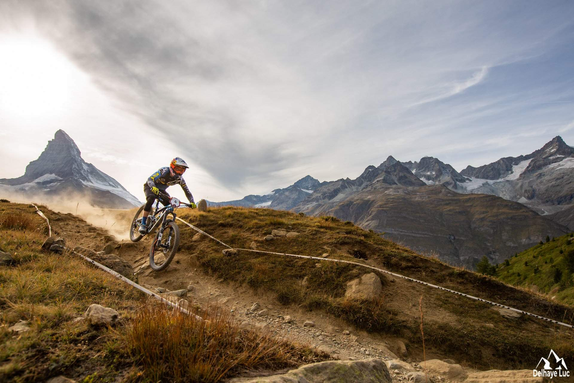 Martin Maes Zermatt